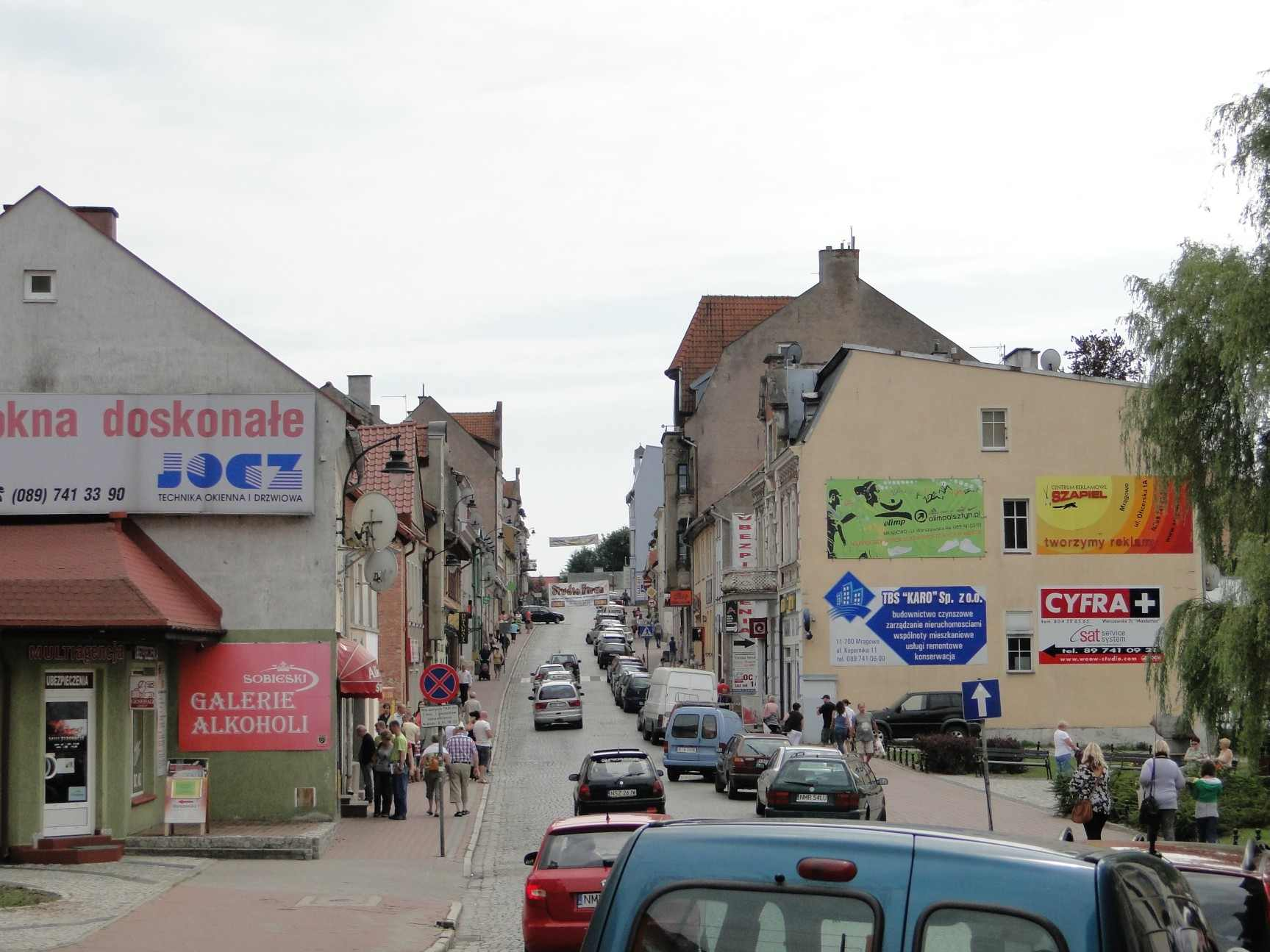 Warszawska Street in Mrągowo; view on south